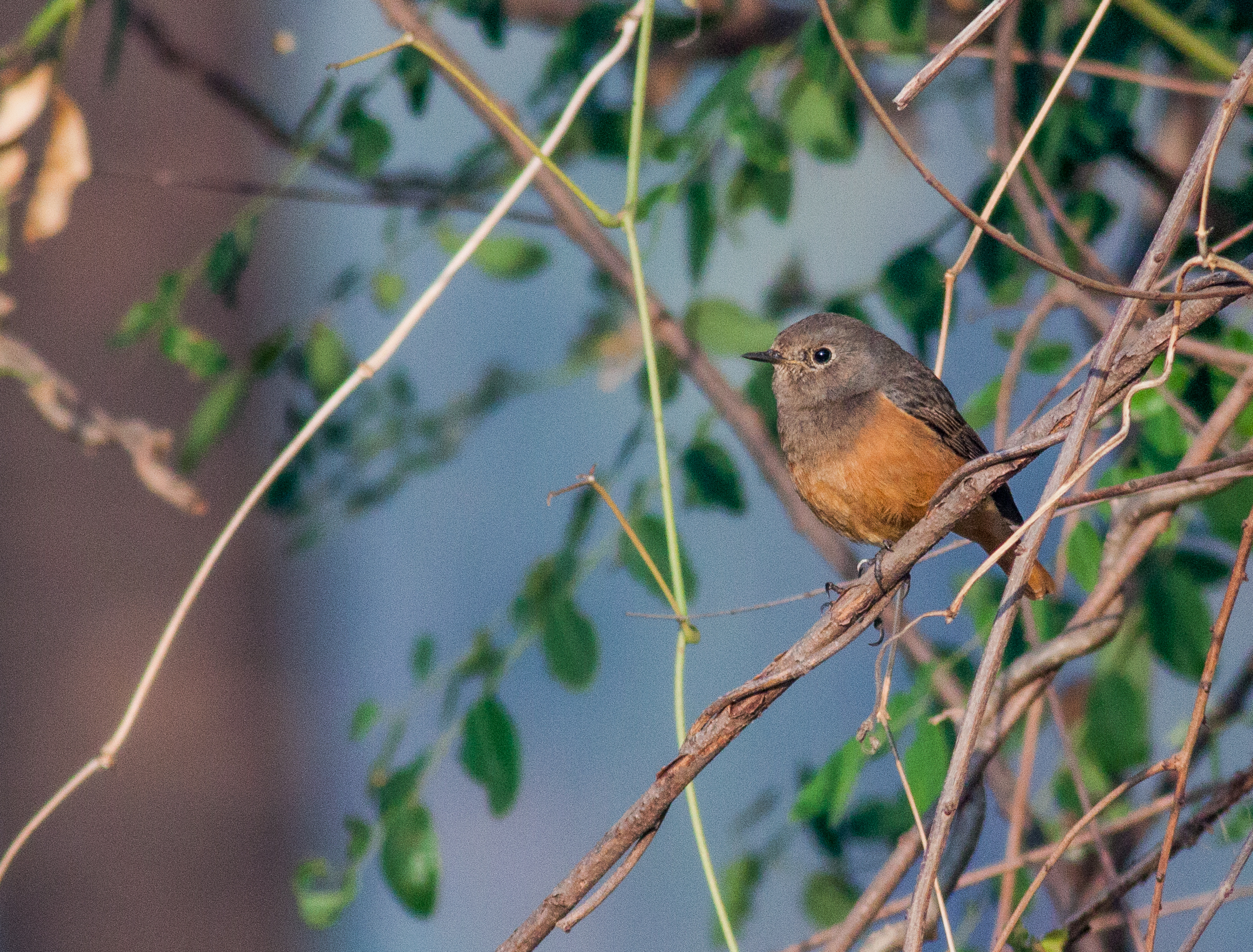 Black Redstart Female